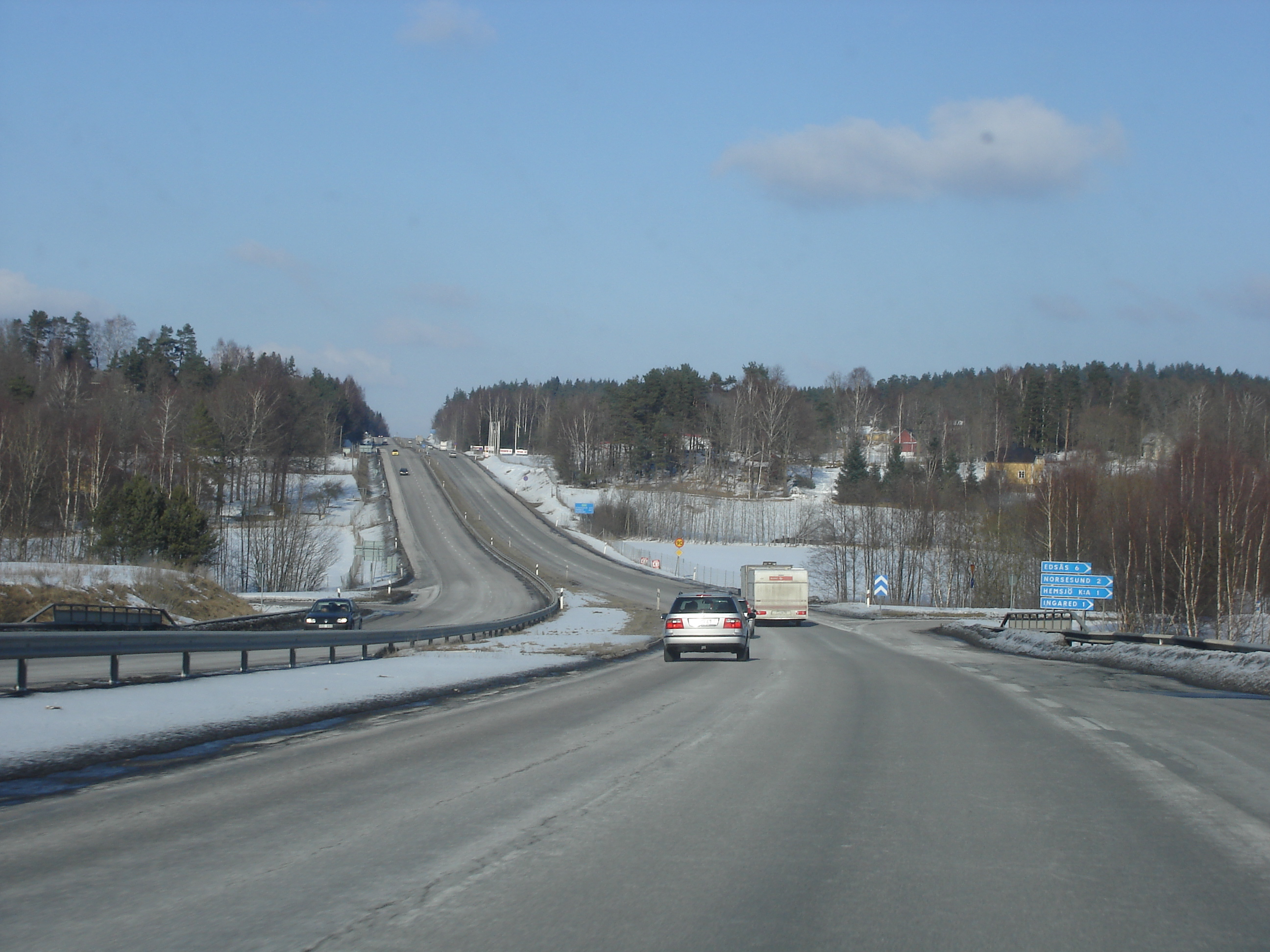 Europeway 20 between Floda and Alingsås in Sweden. Photo: Sebbe (User:Sebbe) 2006-03-11